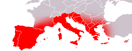 Map of Southern Europe